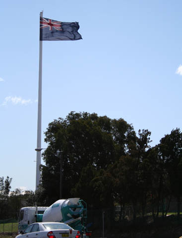 (C) Greg Harper. Giant Australian flag in Rydalmere.